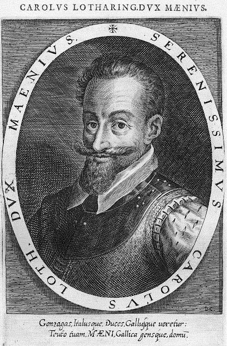 Charles of Lorraine, Duke of Mayenne